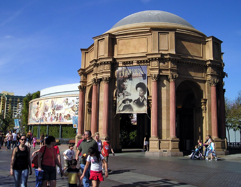 California Adventure's Golden Dreams attraction based on Palace of Fine Arts. by Ellen Levy Finch (user:Elf) feb 2006